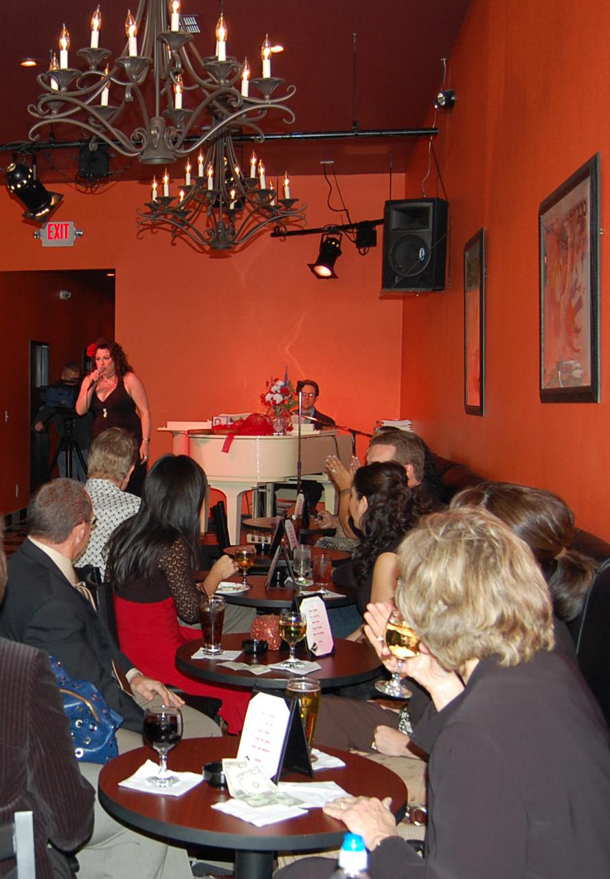 An eclectic range of bars and venues can be found around Fremont East.